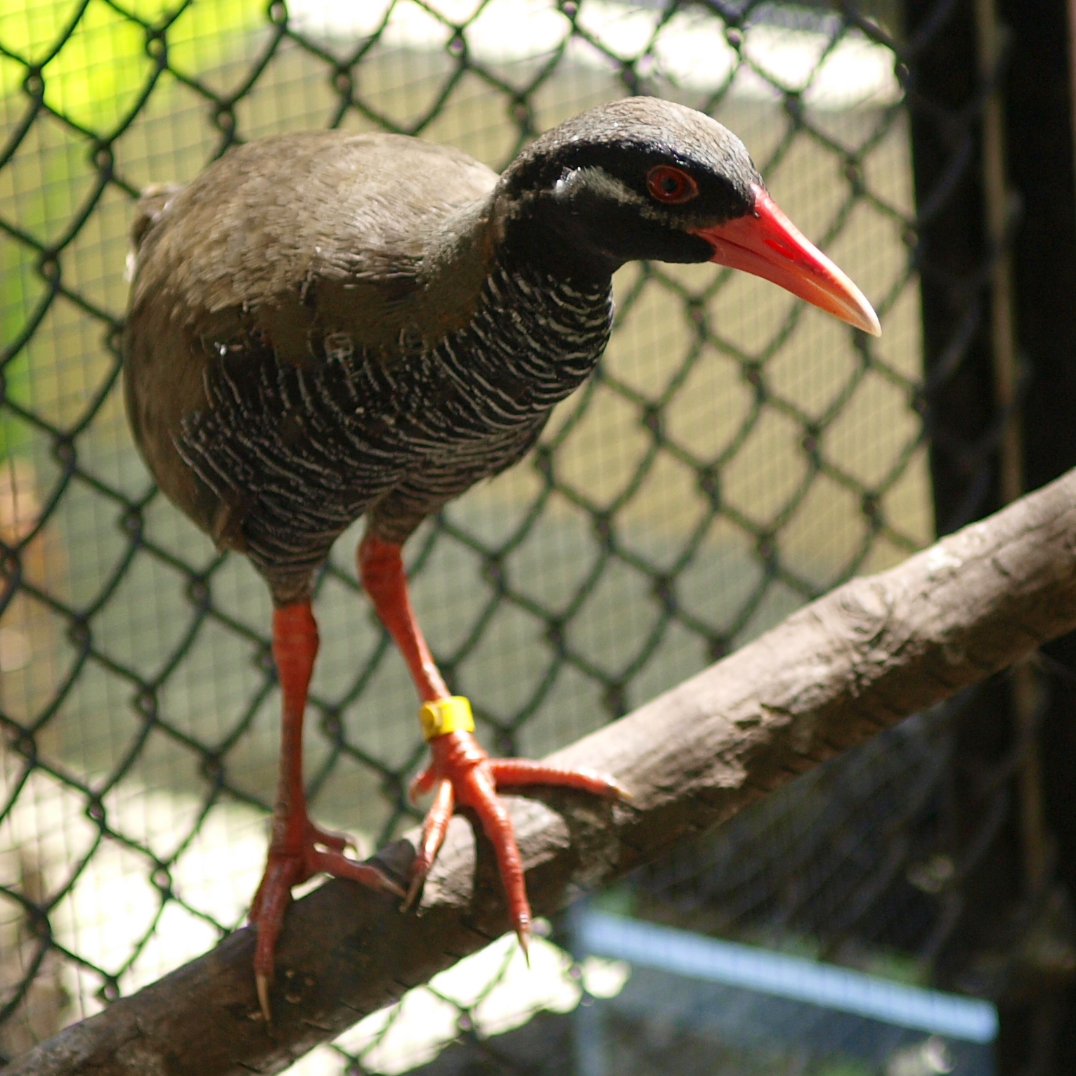 Okinawa Rail, at the Neo Park Okinawa, Japan